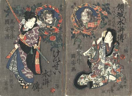 Keisei Suikoden part 2, vols. 1–2, written by Kyokutei Bakin, illustrated by Utagawa Kuniyasu, published in 1826.